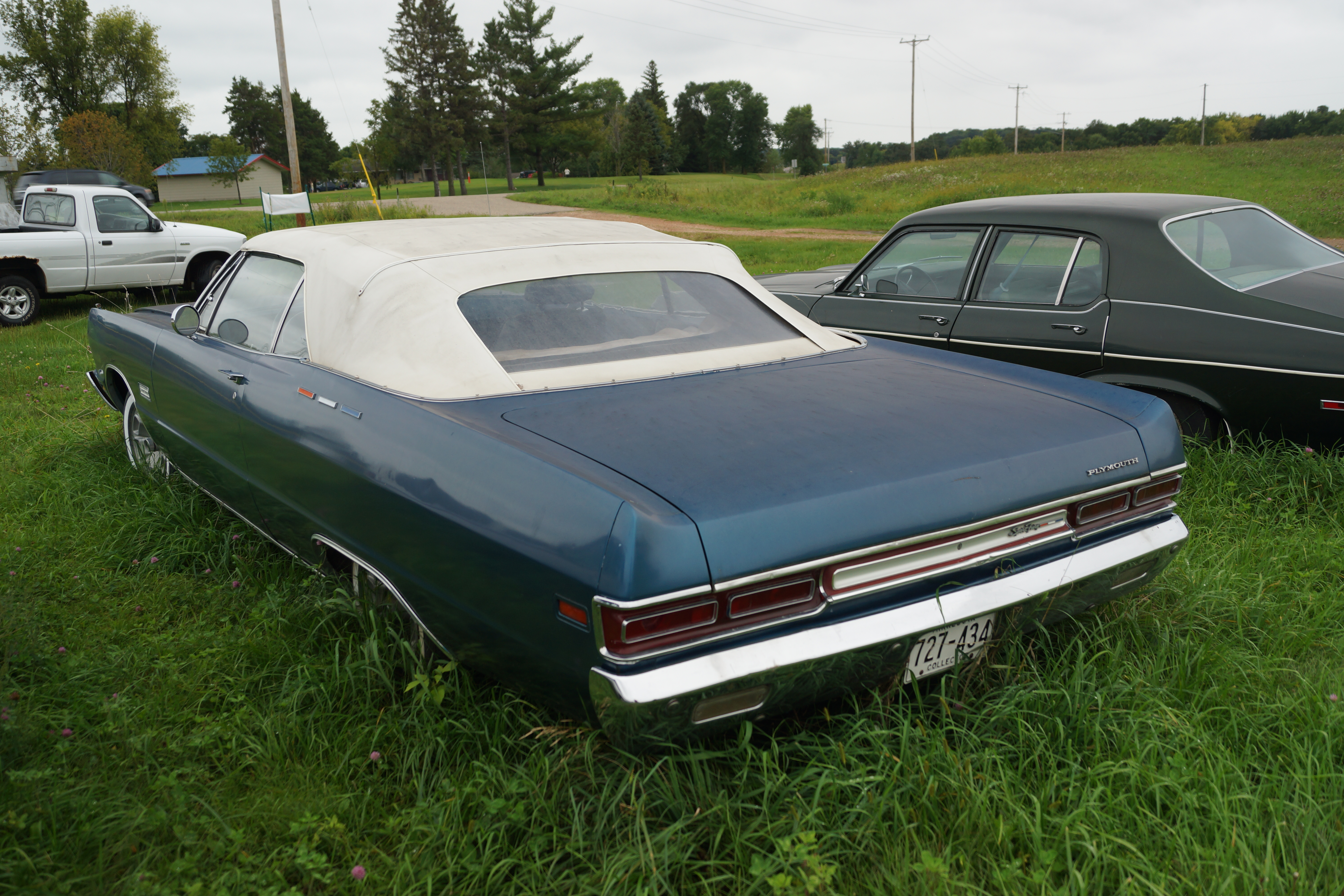 Click here for more car pictures at my Flickr site.